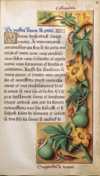 The Grandes Heures of Anne of Brittany (Les Grandes Heures d'Anne de Bretagne in French) is a book of hours, commissioned by Anne of Brittany, Queen of France to two kings in succession, and illuminated in Tours or perhaps Paris by Jean Bourdichon between 1503 and 1508. It is now in the Bibliothèque nationale de France as Ms lat. 9474.